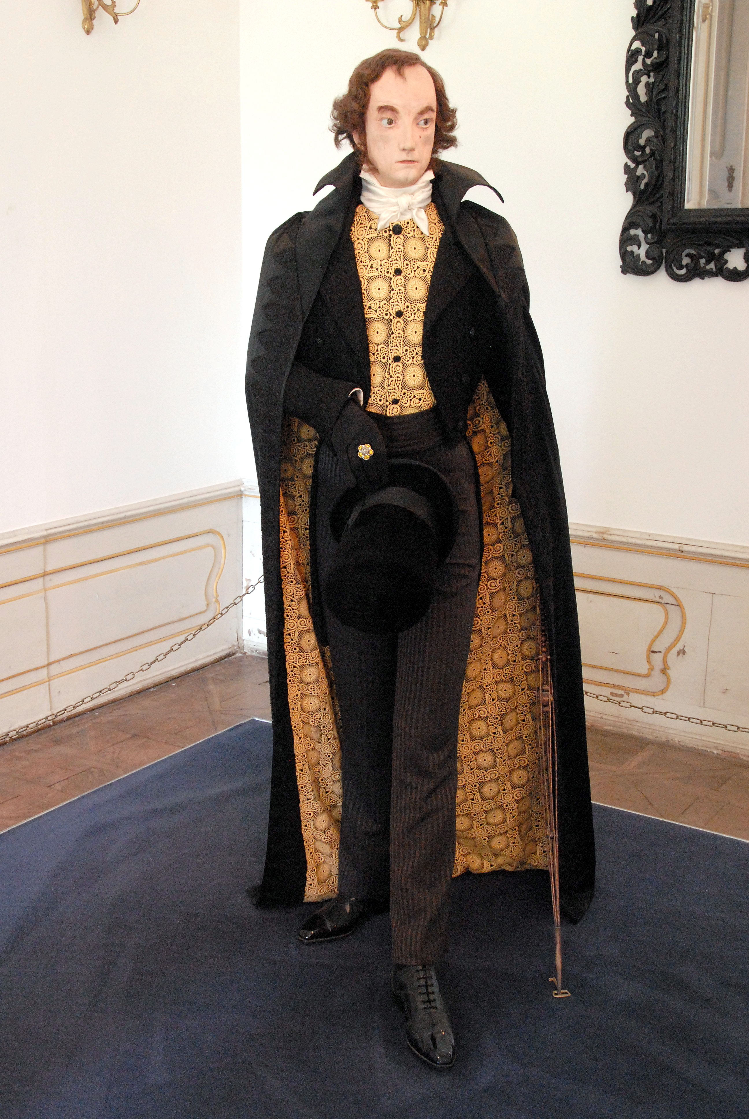 Peter Ritter von Bohr, doll exposed in the castle at Rosegg, community Rosegg, district Villach-Land, Carinthia, Austria